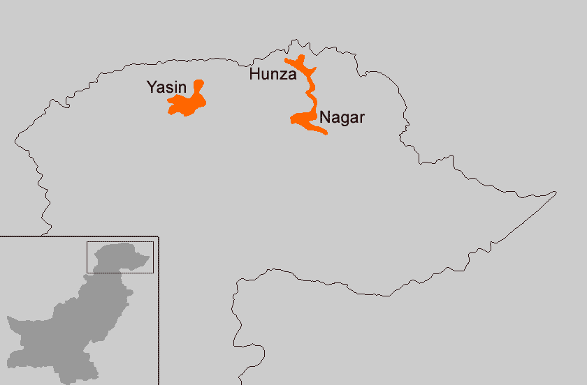 Actual extension of Burushaski languages: Hunza, Nagar (buršaski proper) and Yasin (weršikwar). Source: Language map of Pakistan